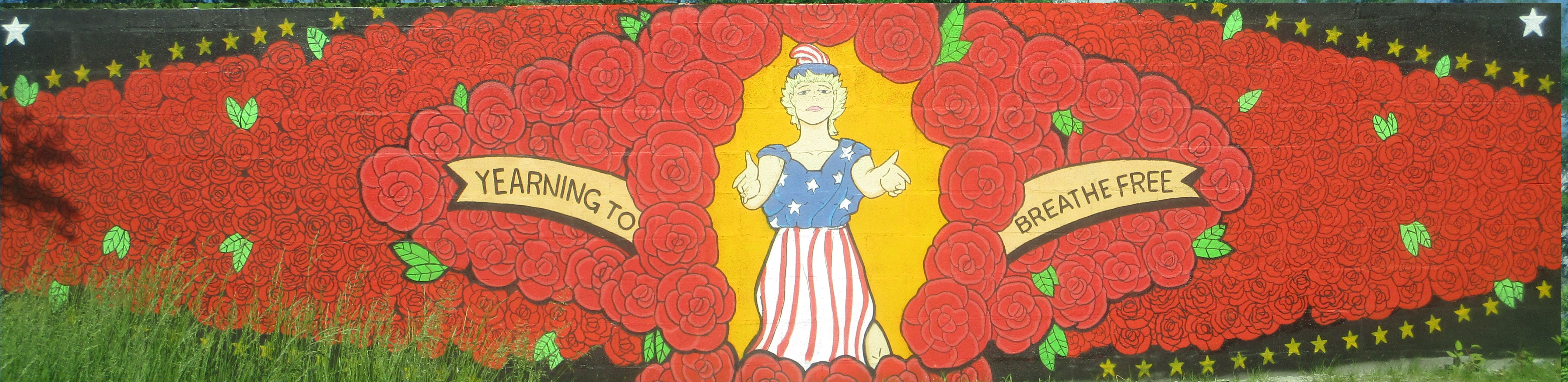 Photo of the Mural, Columbia of Carrick